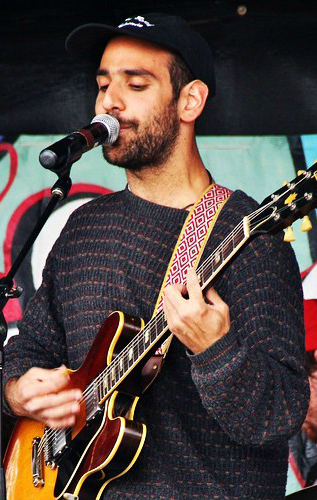 Alex Bleeker performing with Alex Bleeker and the Freaks at Saylestock fundraiser in Ridgewood, New Jersey April 26, 2015